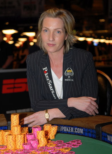 Katja Thater at the 2007 World Series of Poker - Rio Las Vegas.